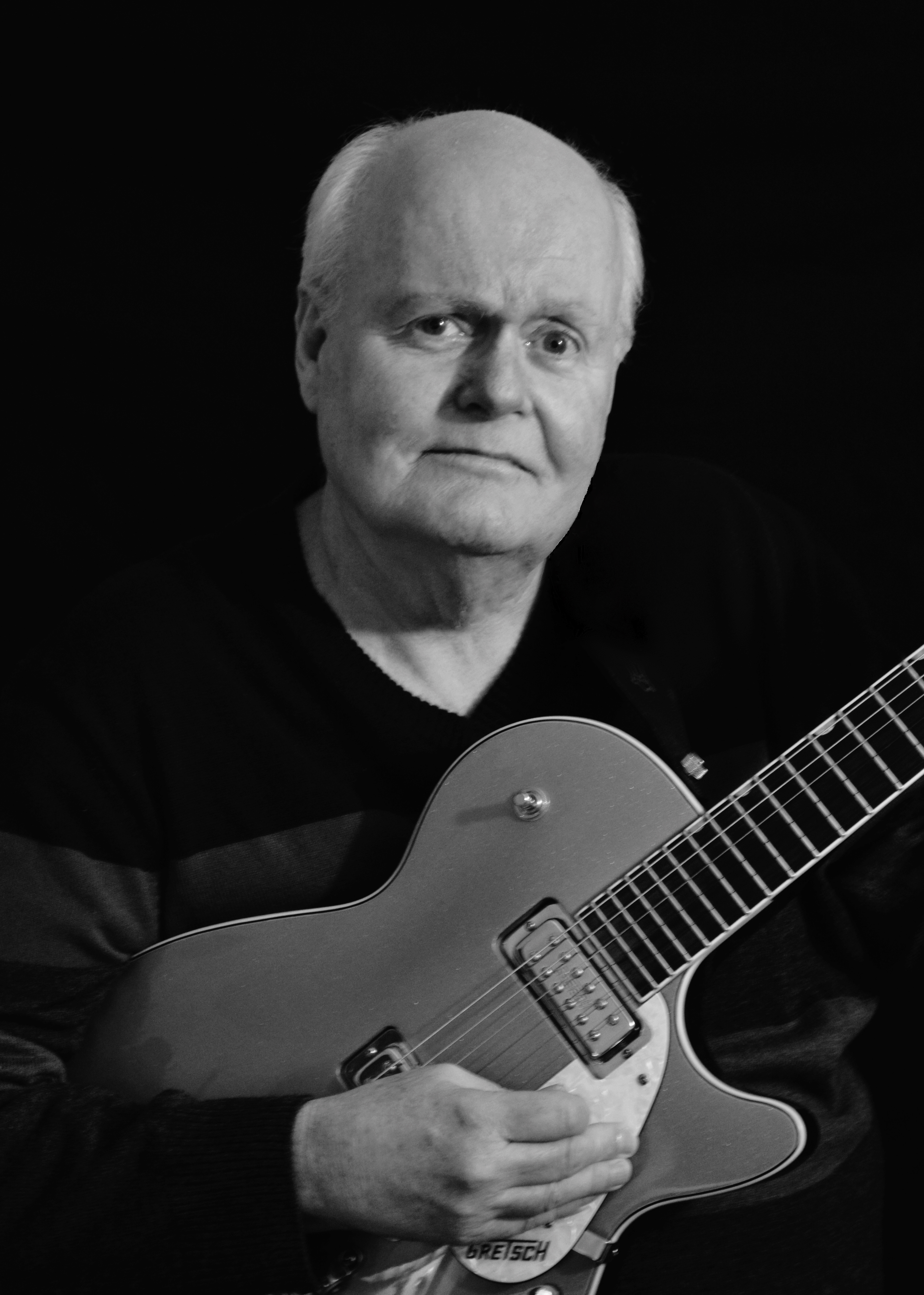 Photo taken by Charlotte Price on 2-4-2014 at Raleigh, NC